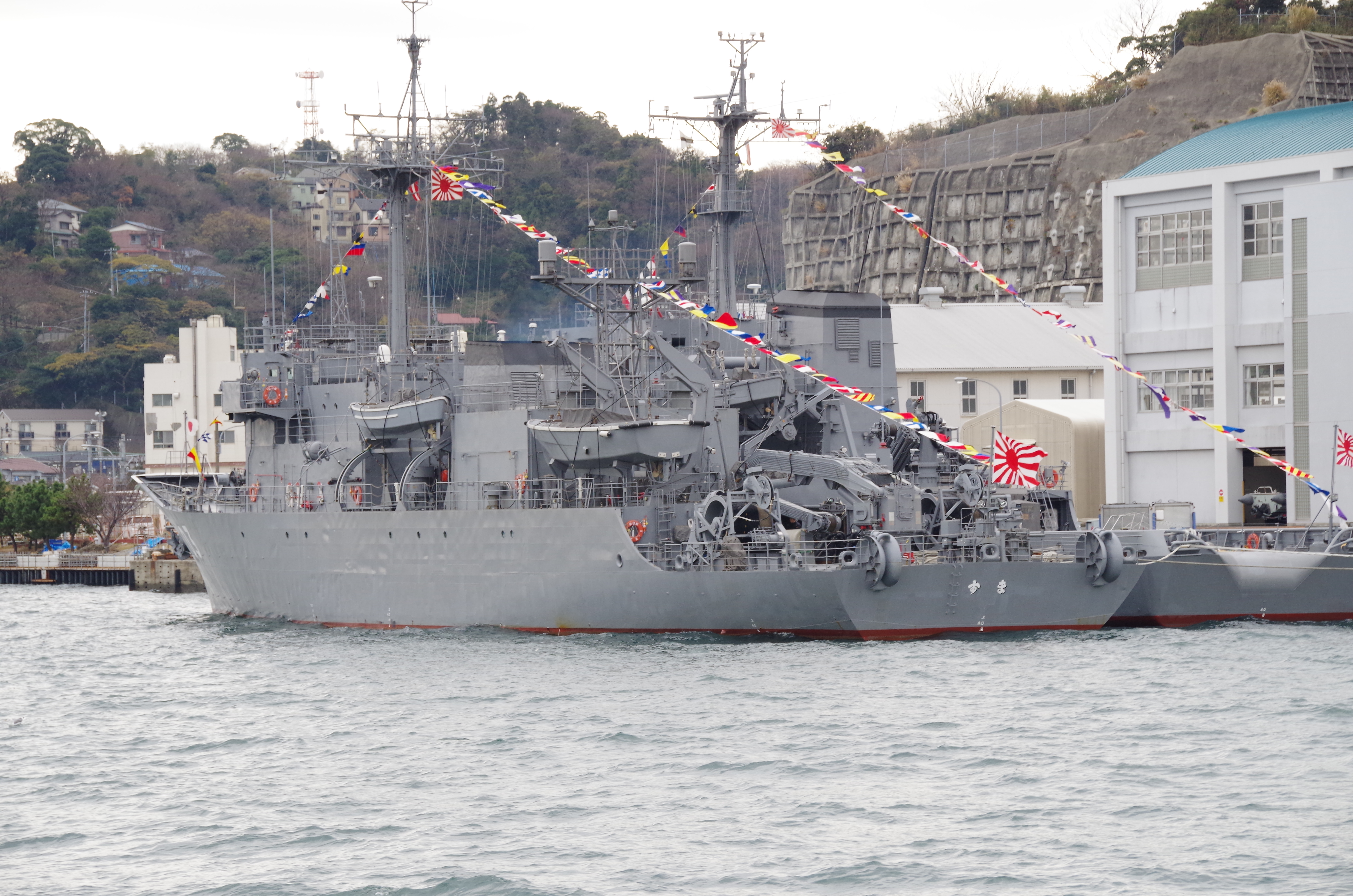 JMSDF_AGS_5103_Suma.Taken by Los688,Yokosuka,Japan,23-Dec-2012.PD-self.